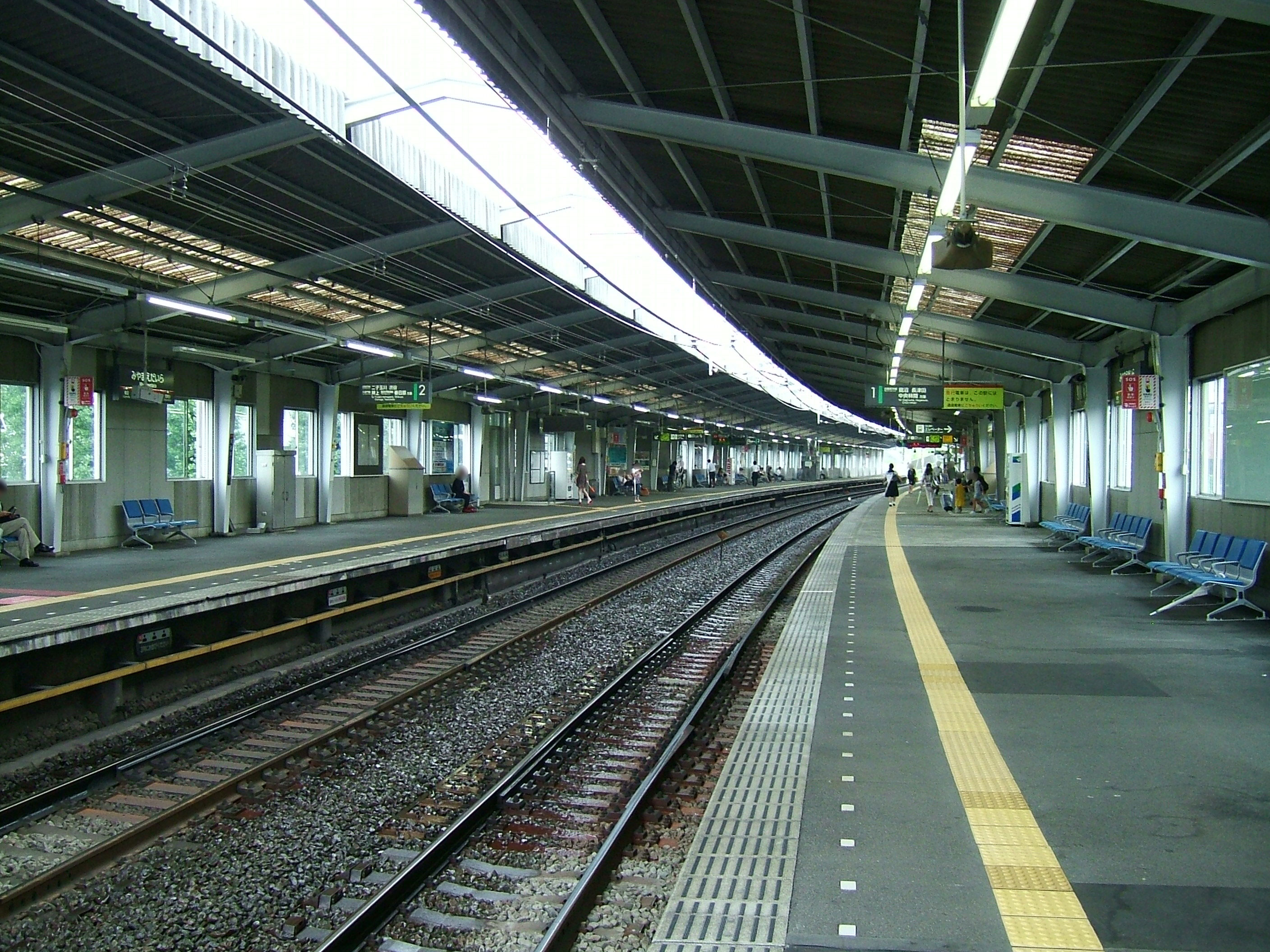 Miyamaedaira Station platform (Tōkyū Den-en-toshi Line)